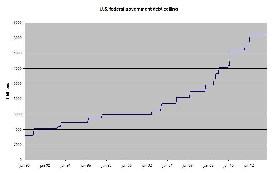 Development of US federal government debt ceiling from 1990 to October 2013; updated version of File:US federal government debt ceiling from 1990.png. Bron